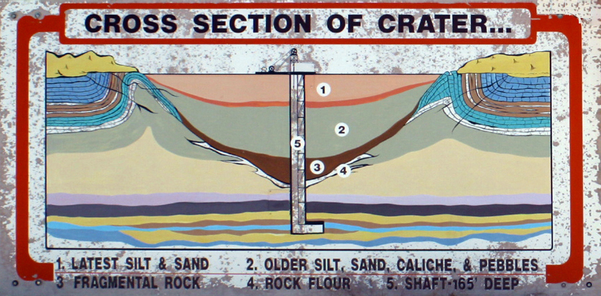 Geological cross section of Odessa Meteor Crater, Texas. This sign was photographed in the parking lot of the Odessa Meteor Crater museum in July of 2004 but has since been replaced.